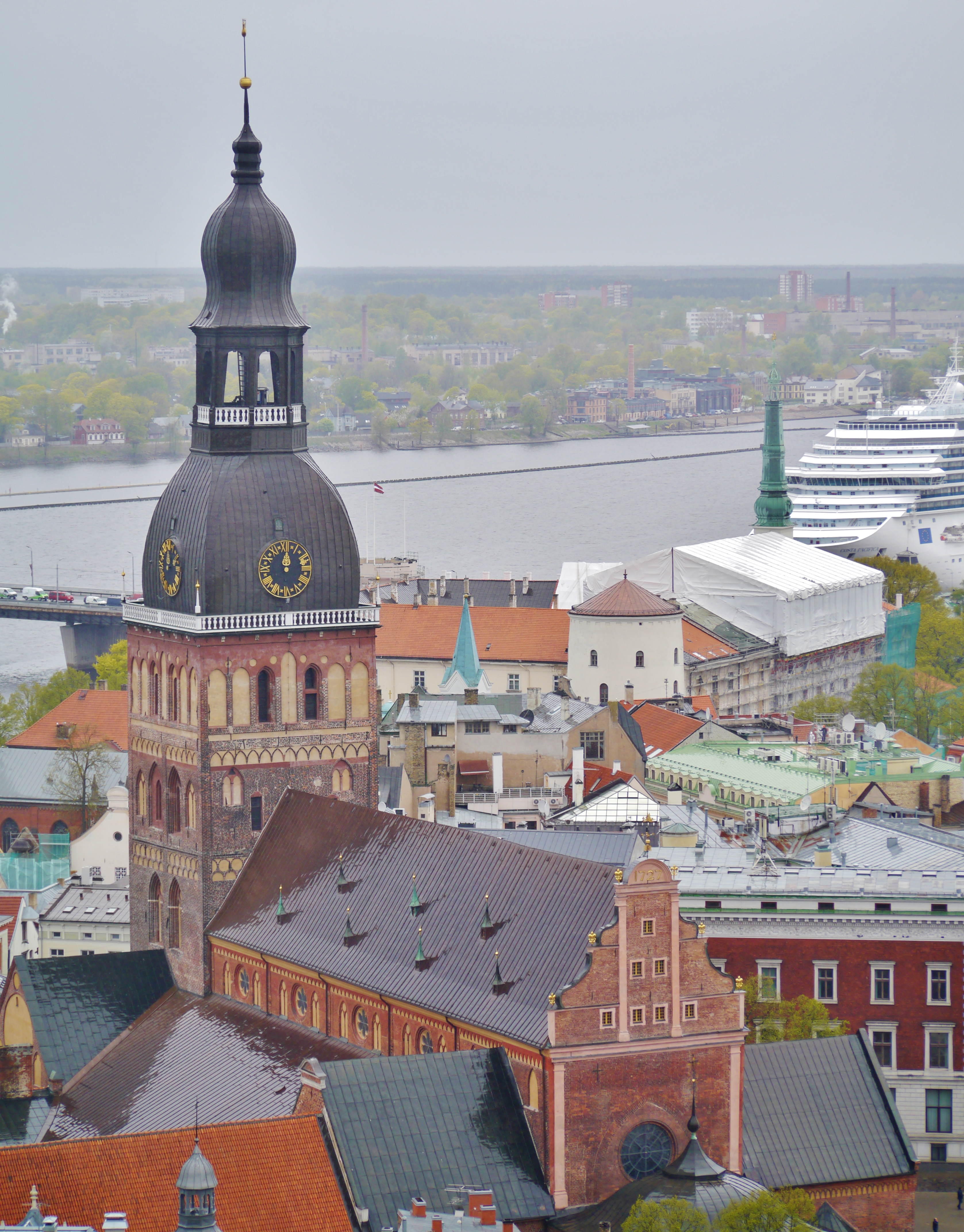 View from the Tower of St. Peter's Church to the Dome Church, Riga, Latvia